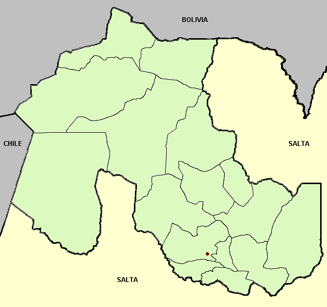 It shows administrative boundaries of Jujuy province in Argentina, its departments and its capital (San Salvador de Jujuy).